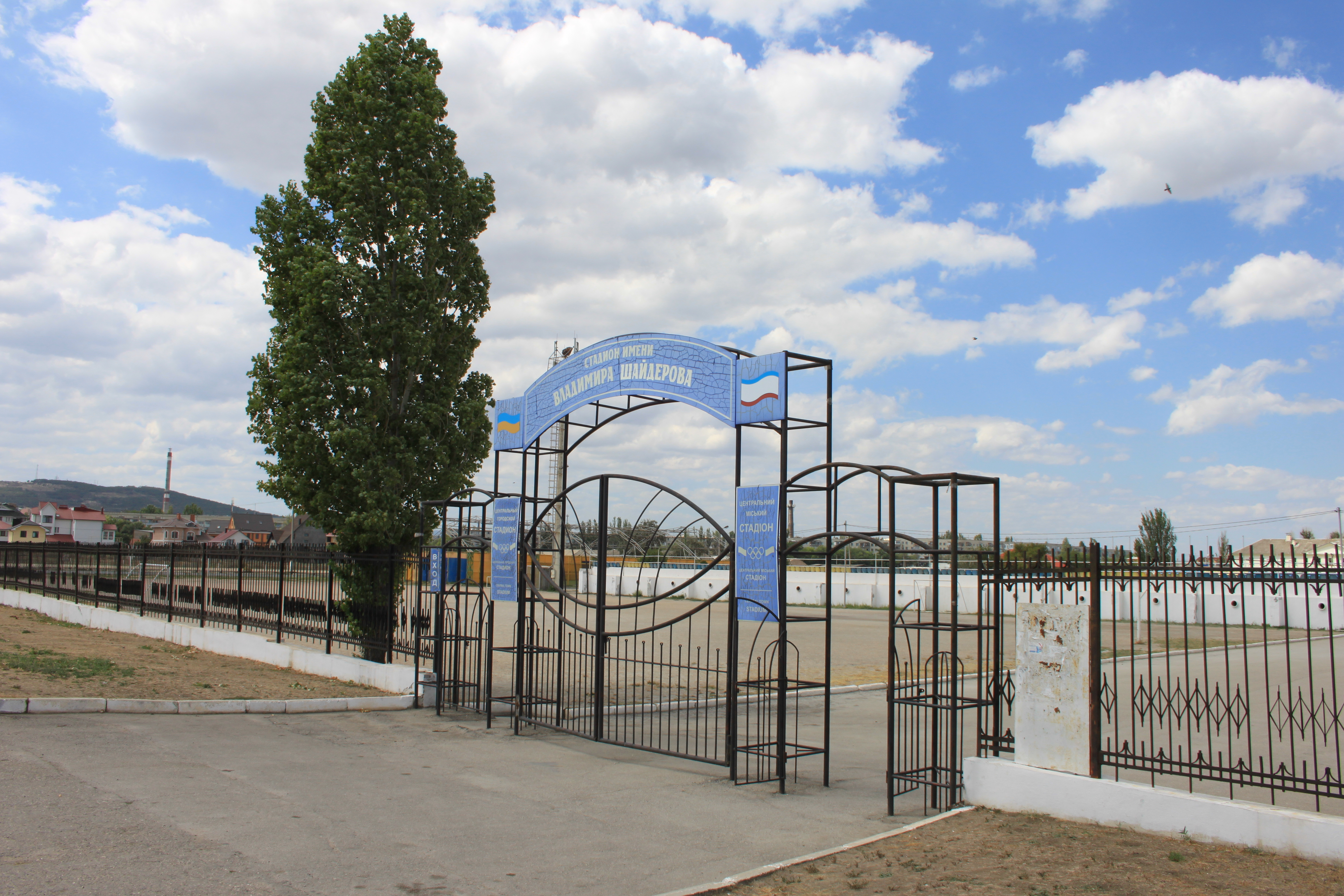 Shayderov Stadium in Feodosia, Crimea, Ukraine